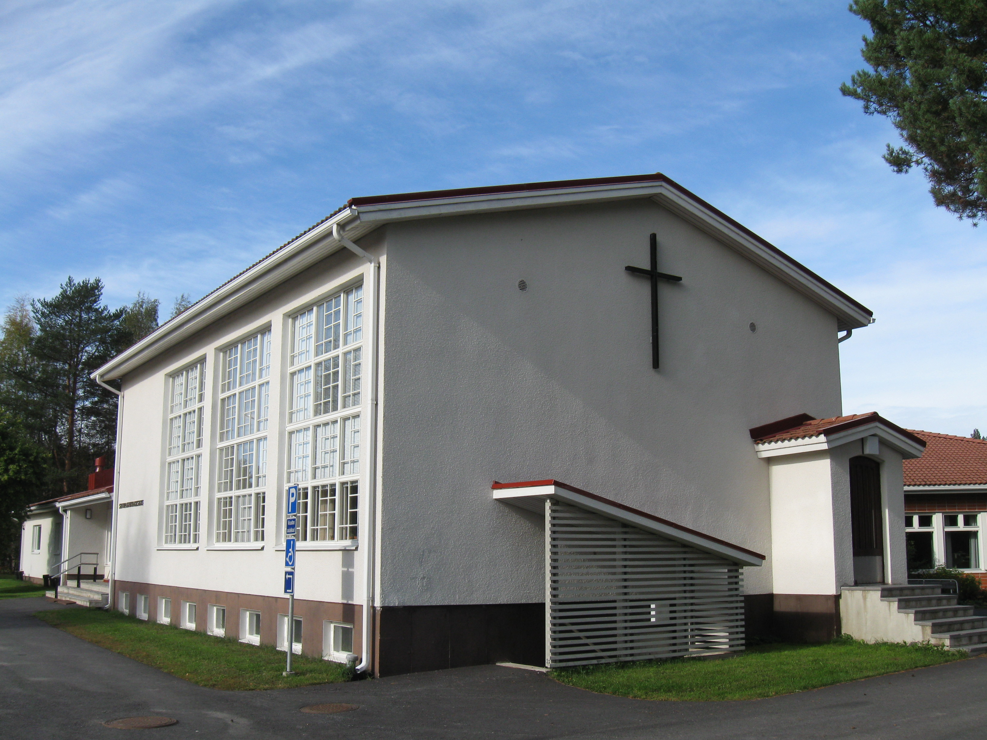 The parish hall of Utajärvi, Finland.